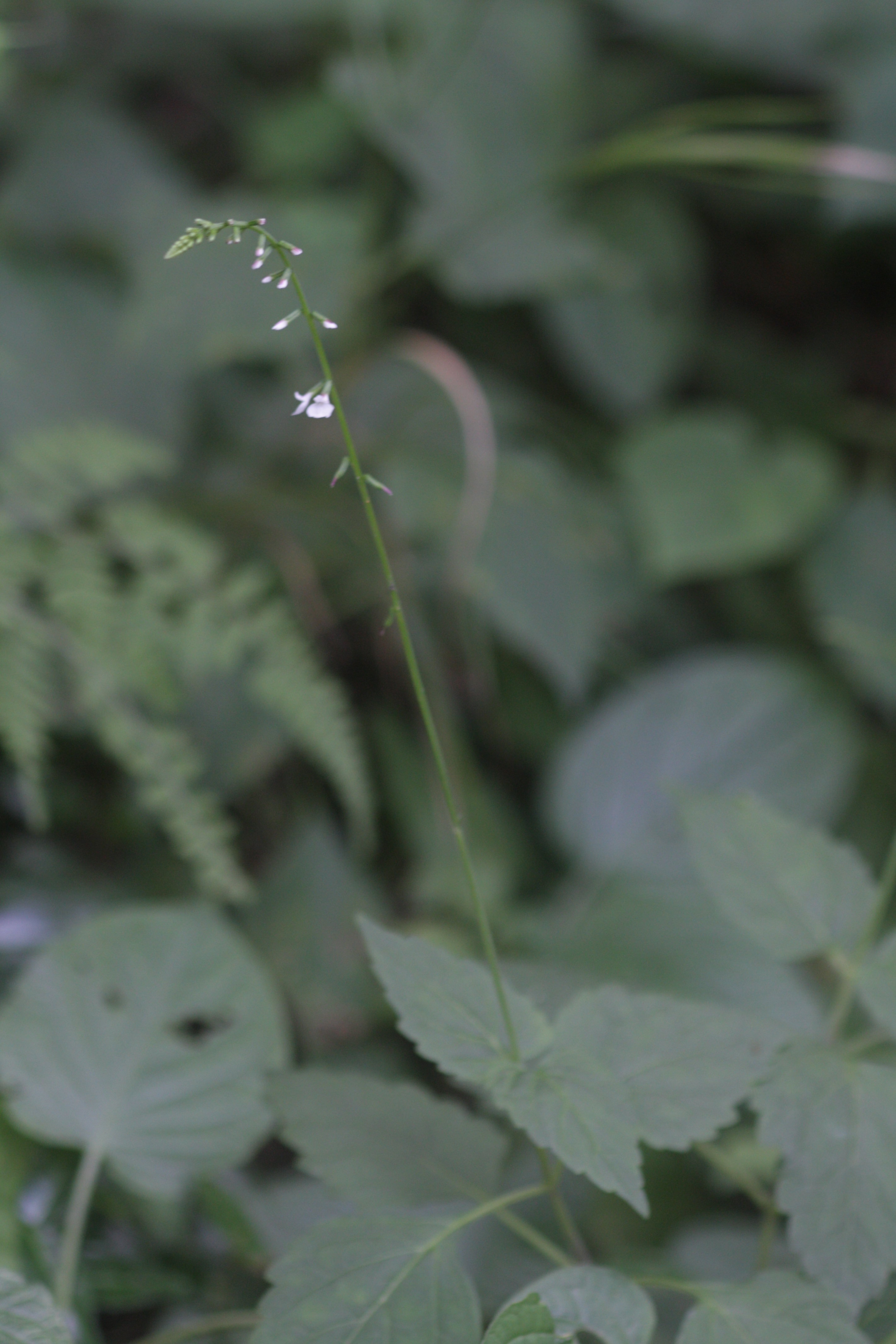 Phryma leptostachya var. asiatica